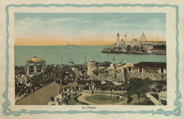 La Punta